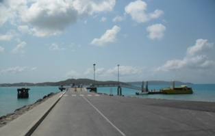 Horn Island Jetty.